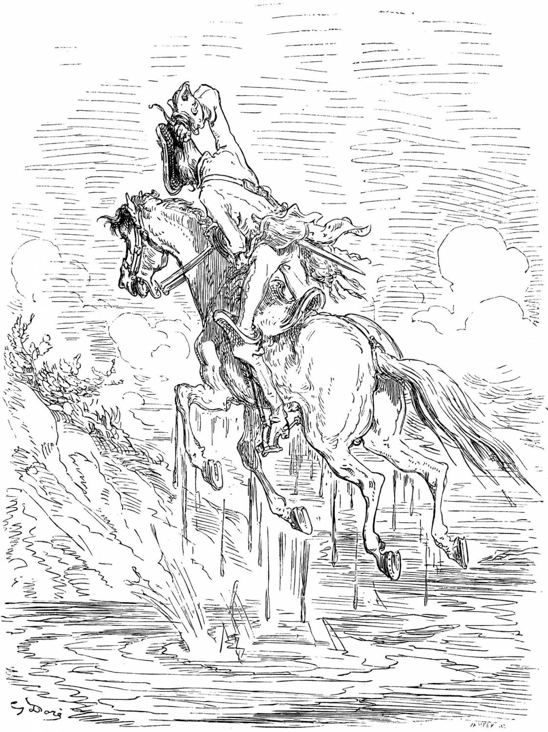 Illustrations of Baron von Münchhausen by Gustave Doré